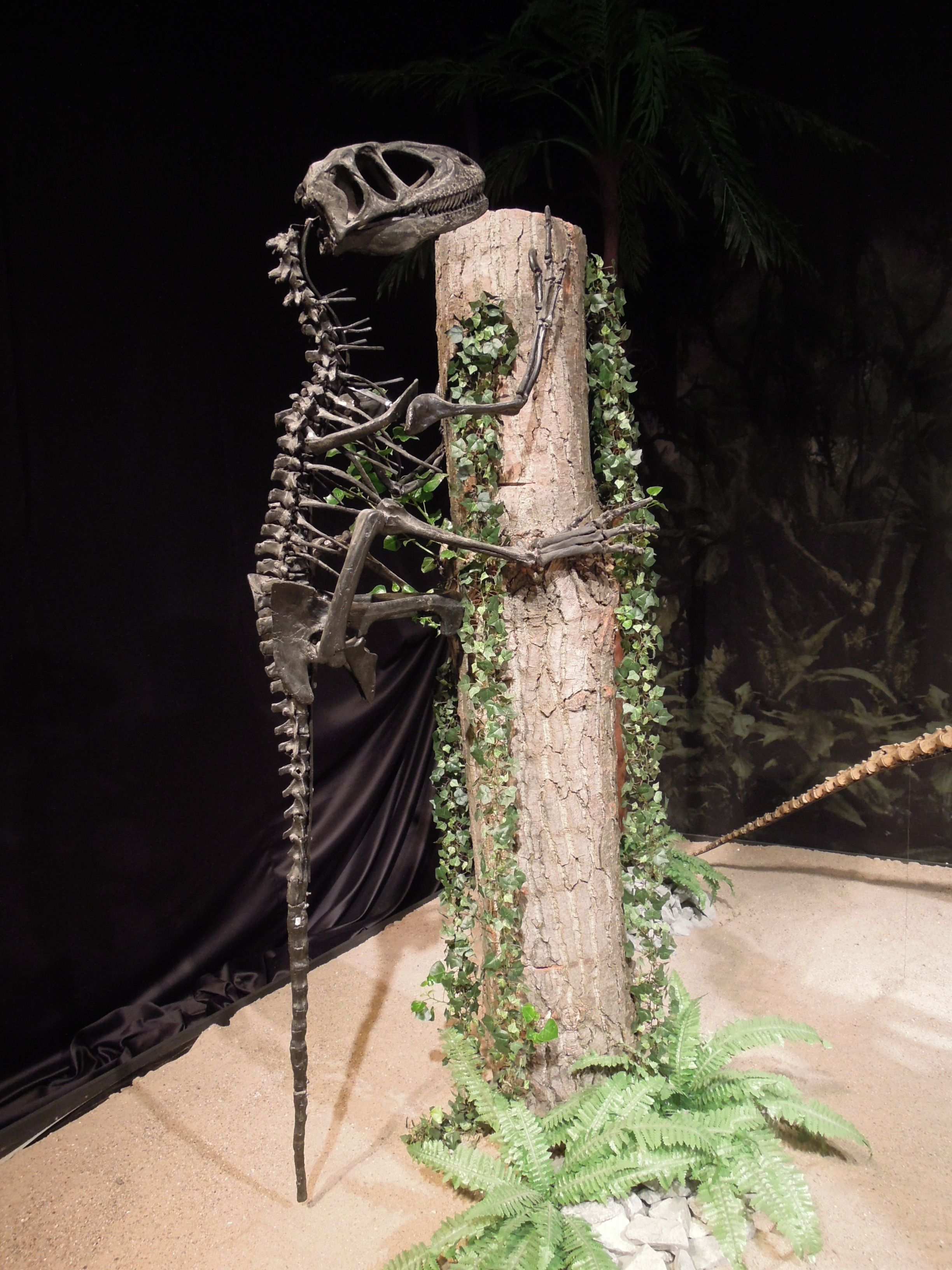 Deinonychus antirrhopus, Dinosaurium exhibition, Prague, Czech Republic